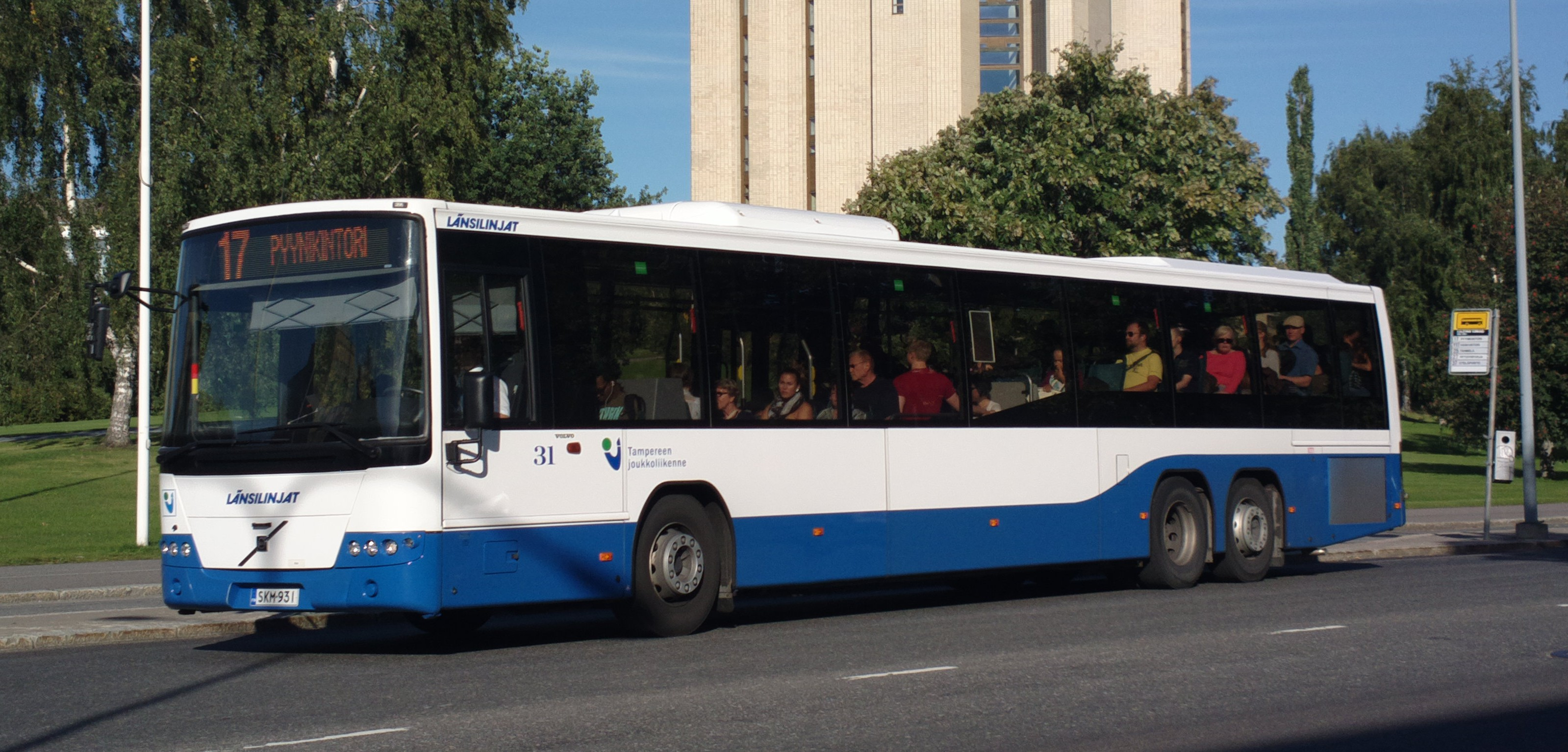 Tampere city bus line 17 operated by Länsilinjat Oy